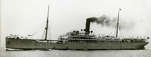 The Union-Castle liner Dover Castle